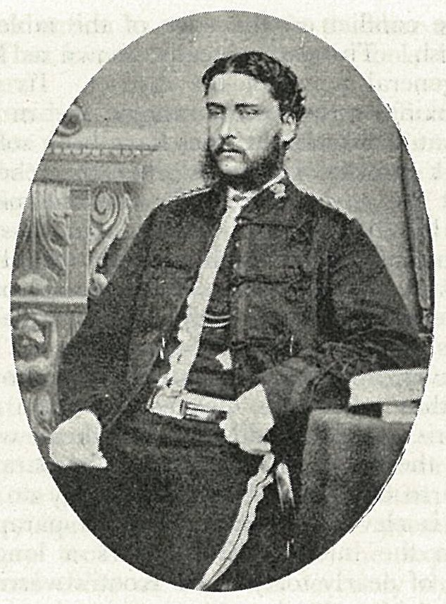 Captain J. St. George (Killed at Te Porere, 1869)